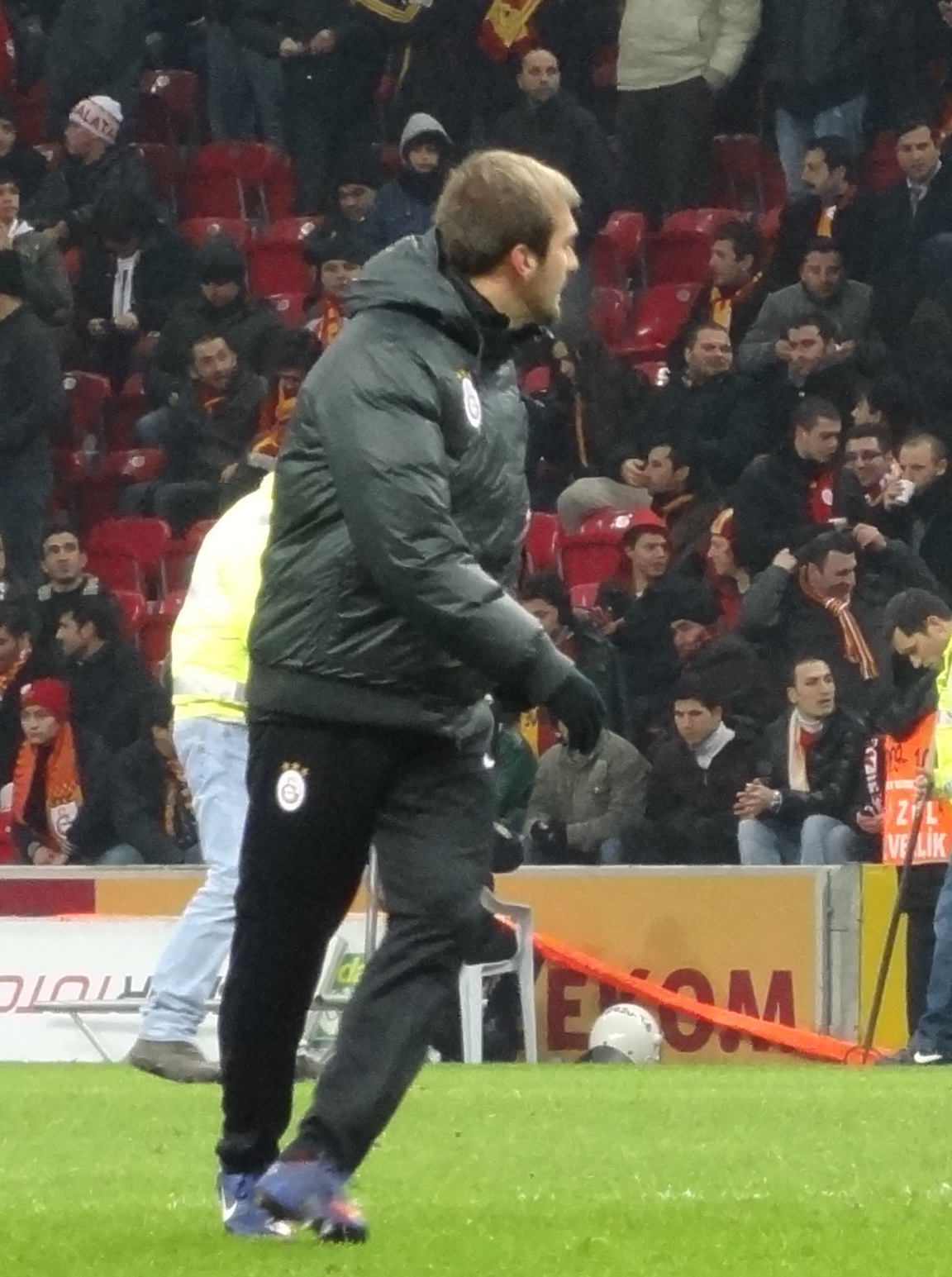 Serkan Kurtuluş Galatasaray